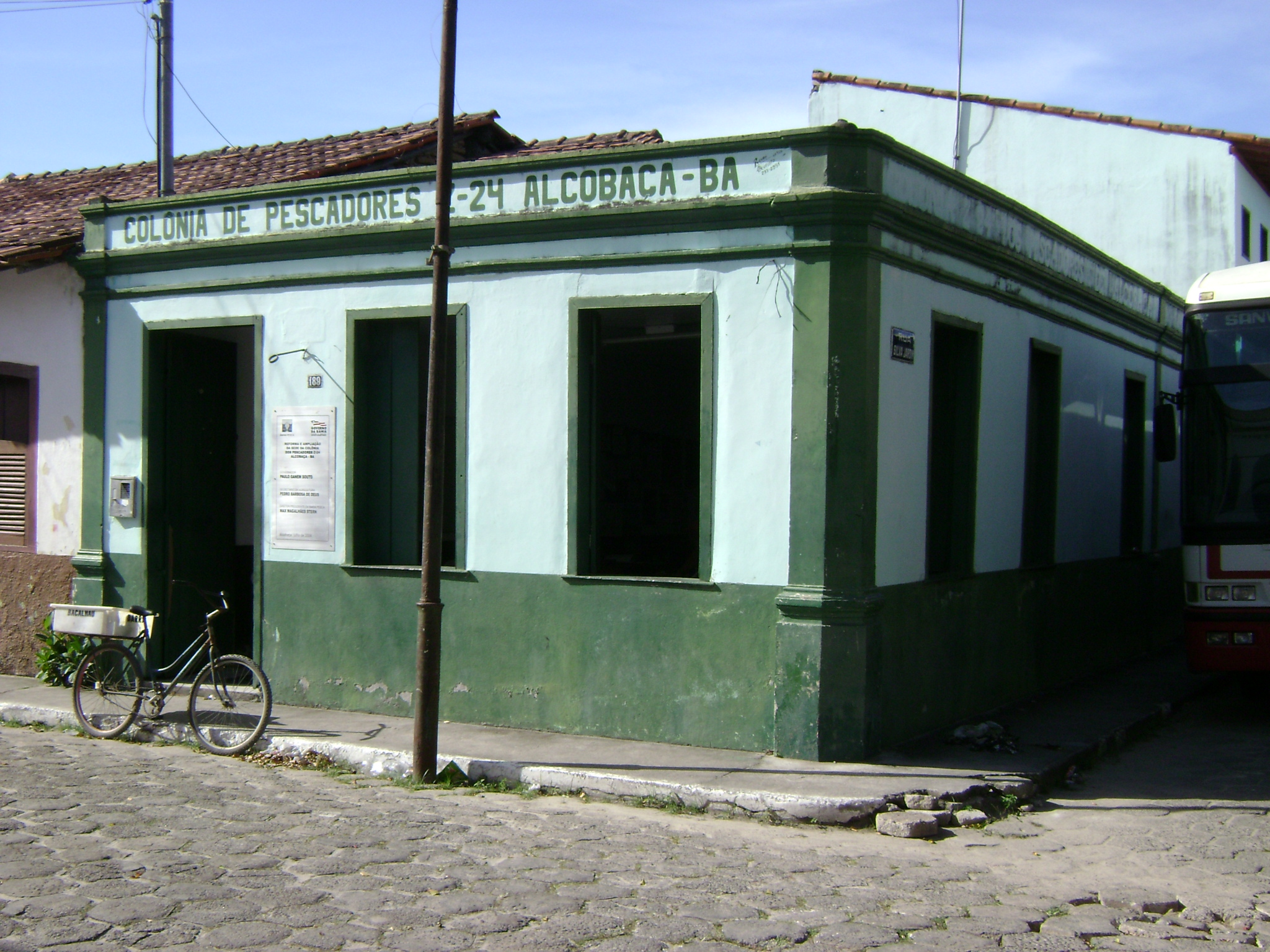 Colônia de Pescadores